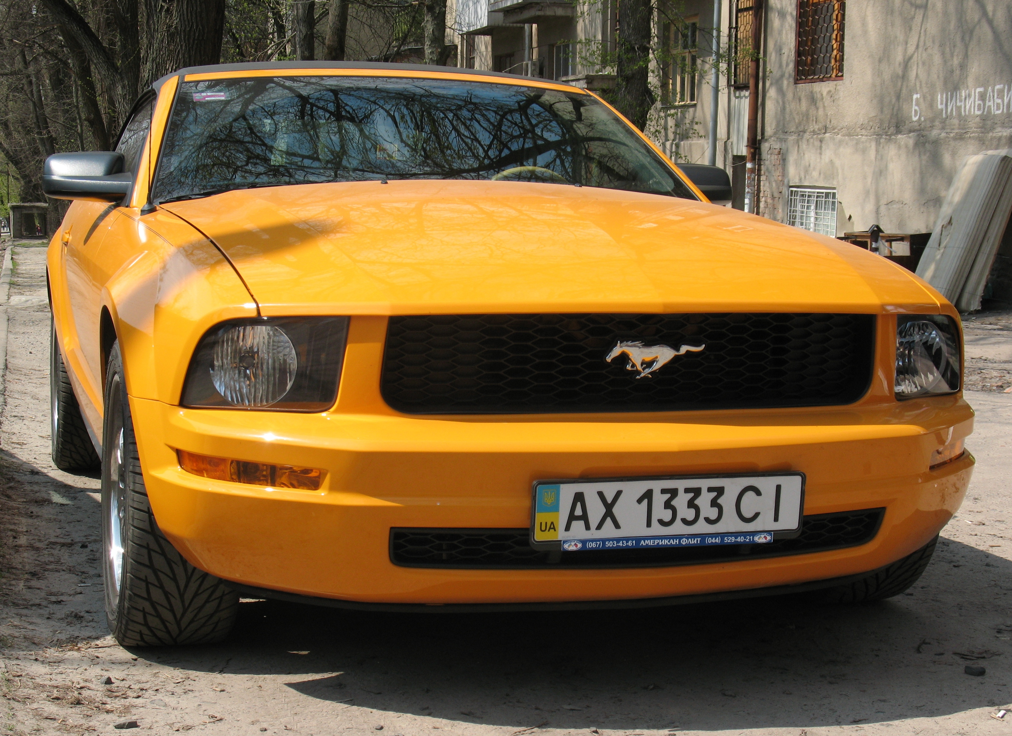 Kharkov City. New Ford Mustang cabrio.